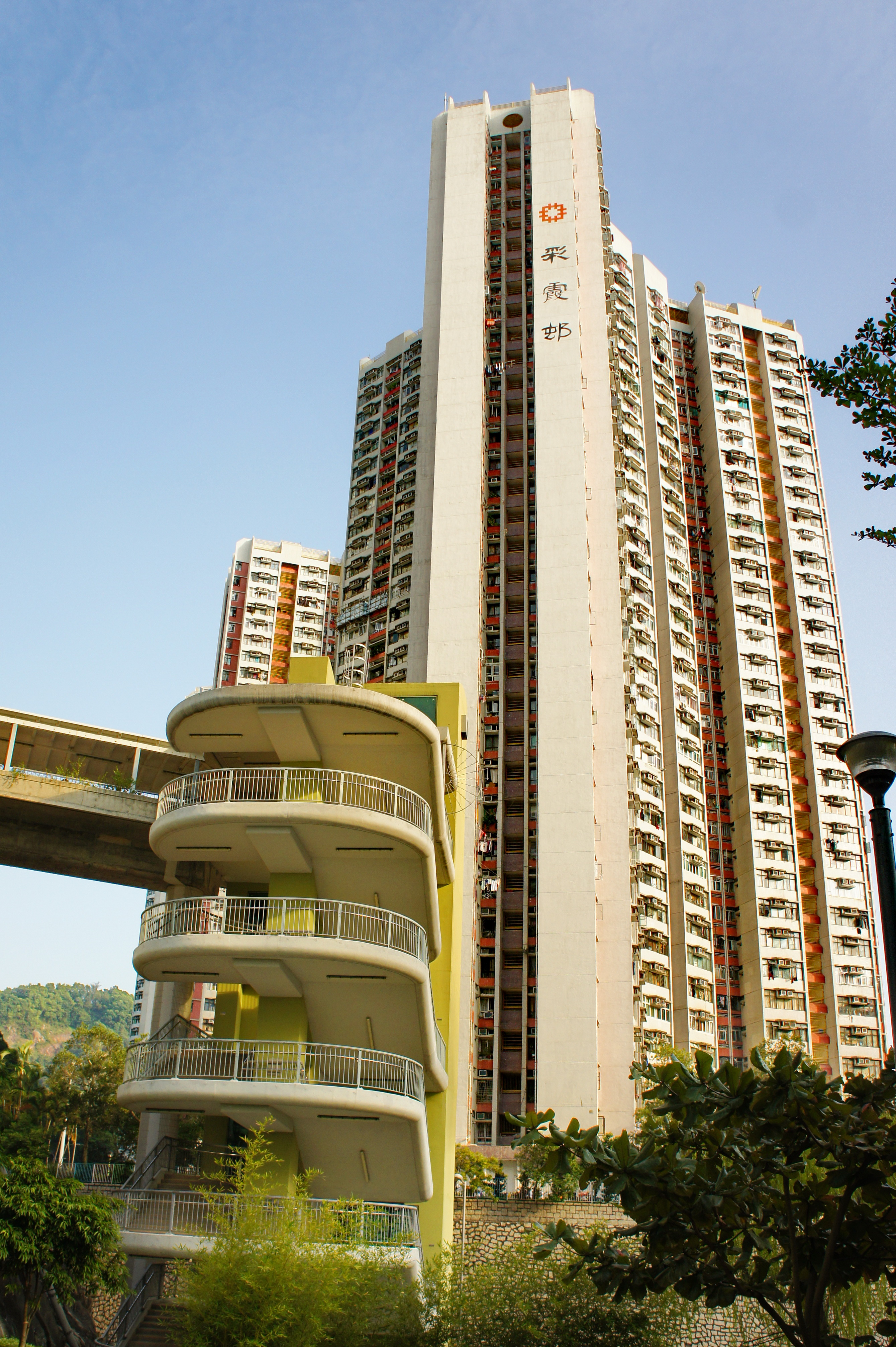 Choi Ha Estate, Jordan Valley, Ngau Tau Kok, Kowloon, Hong Kong.